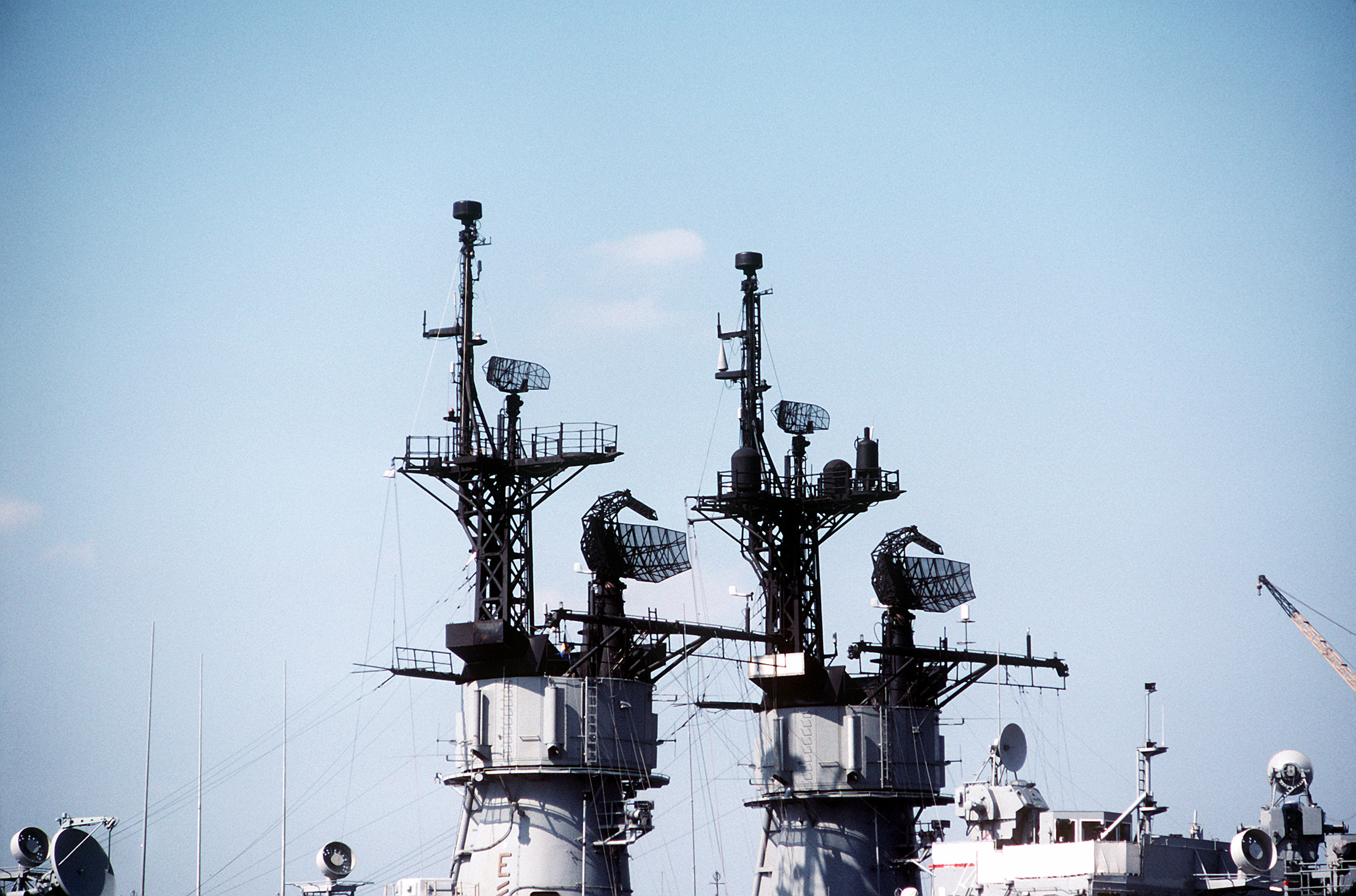 A view of two macks on Knox class frigates moored at a pier. The smaller SPS-10 radar antenna sits above the SPS-40 antenna and forward of the macks are the Mark 68 fire control systems (FCS). A satellite receiving antenna is visible behind one of the macks. Location: NAVAL AIR STATION, NORFOLK, VIRGINIA (VA) UNITED STATES OF AMERICA (USA)